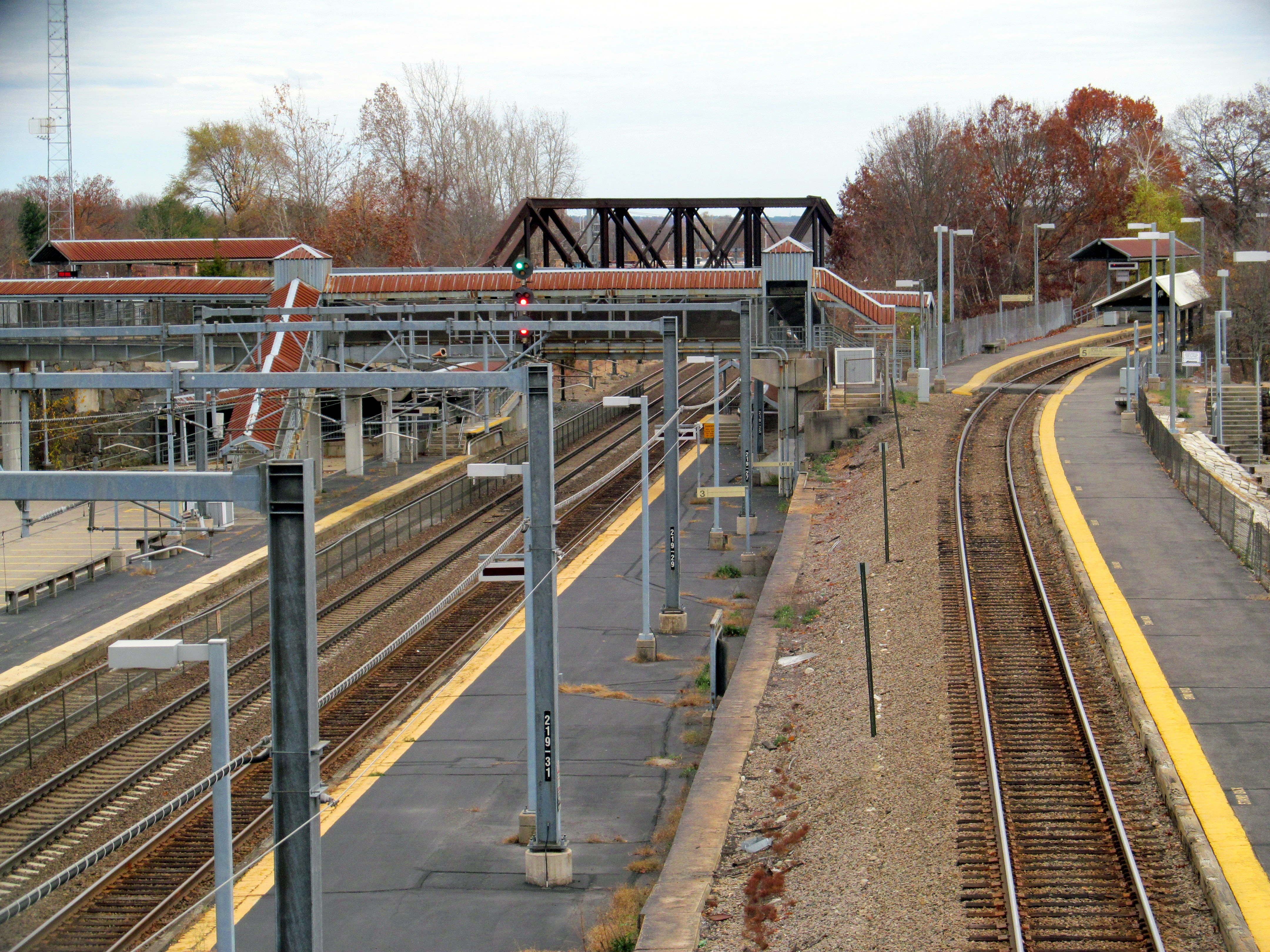 Readville station viewed from the Milton Street overpass in November 2015